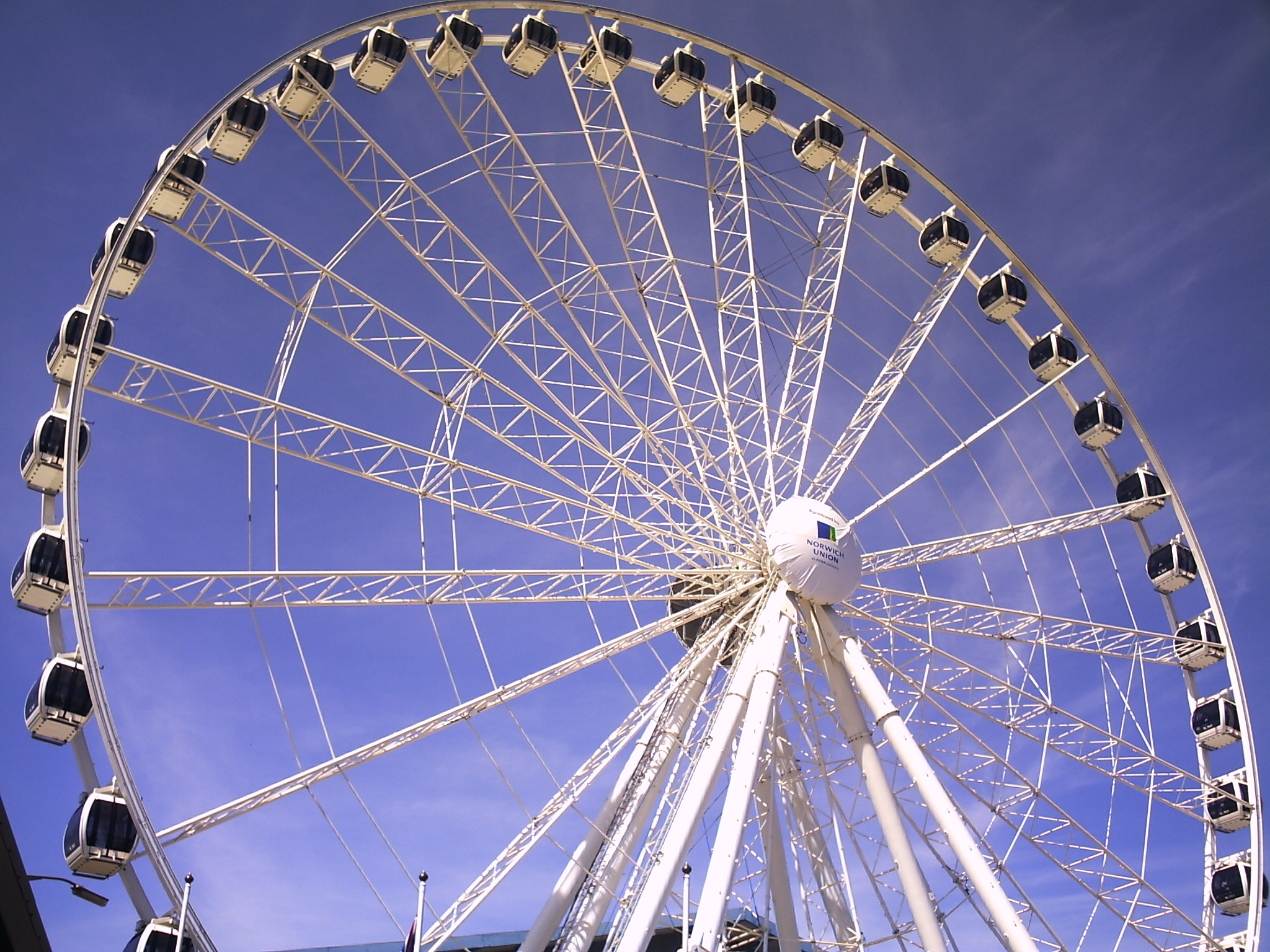 A view of the south side of the 54 metre high Yorkshire Wheel, that was installed at the National Railway Museum in York. It was sited 53°57′35.81″N 1°5′44.42″W / 53.9599472°N 1.0956722°W next to and in line with the southern wall of the museum's Great Hall. Construction started in March 2006 and the wheel operated from 12 April 2006 until 2 November 2008, being dismantled shortly afterwards.